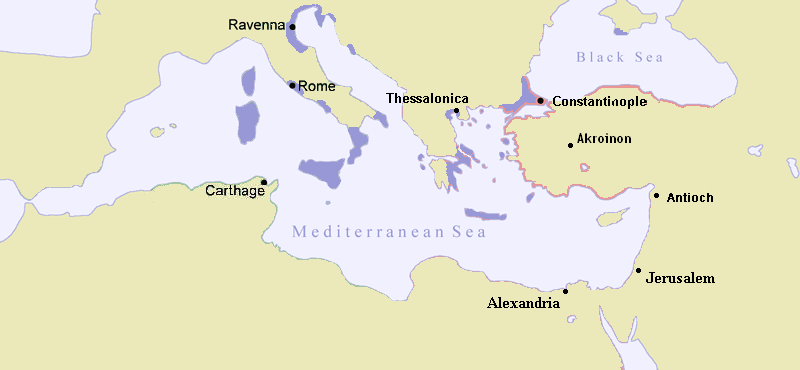 Byzantine Empire in 717. Much of Asia Minor was in Arab hands or within range of Arab armies.[1]